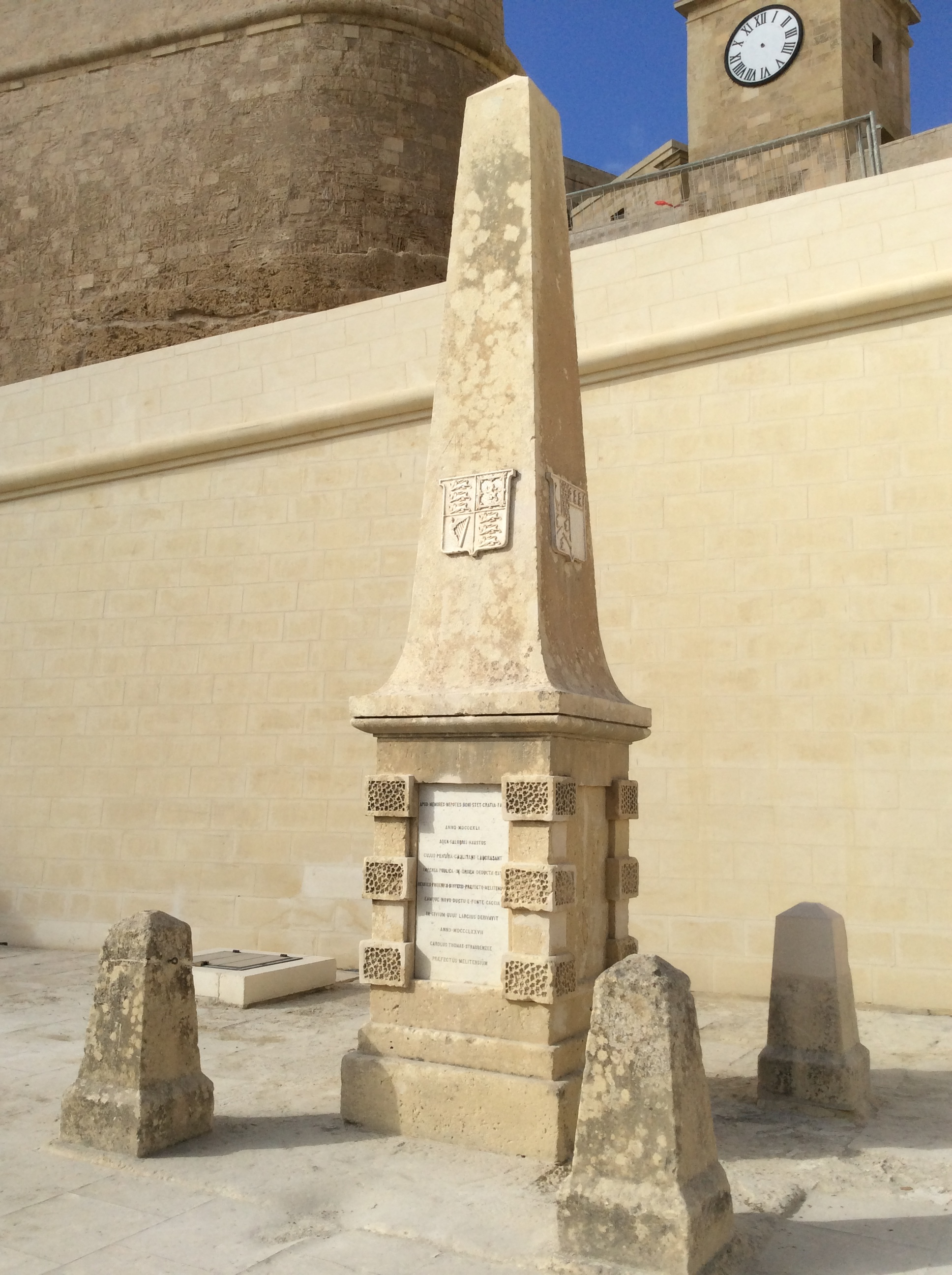 Gozo Aquaduct Obelisk June 2016